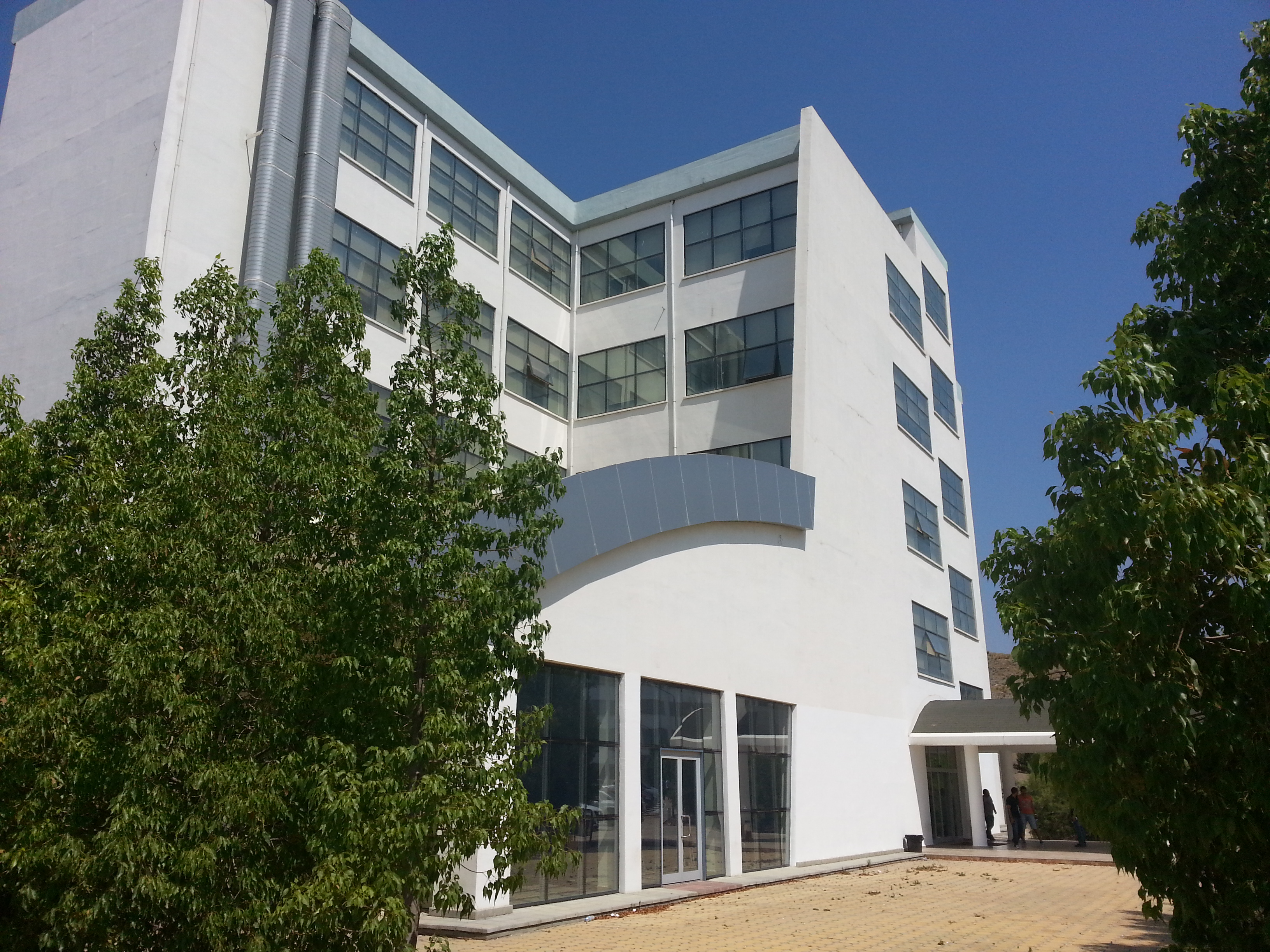 Cyprus Near East University Faculty of Health Sciences.